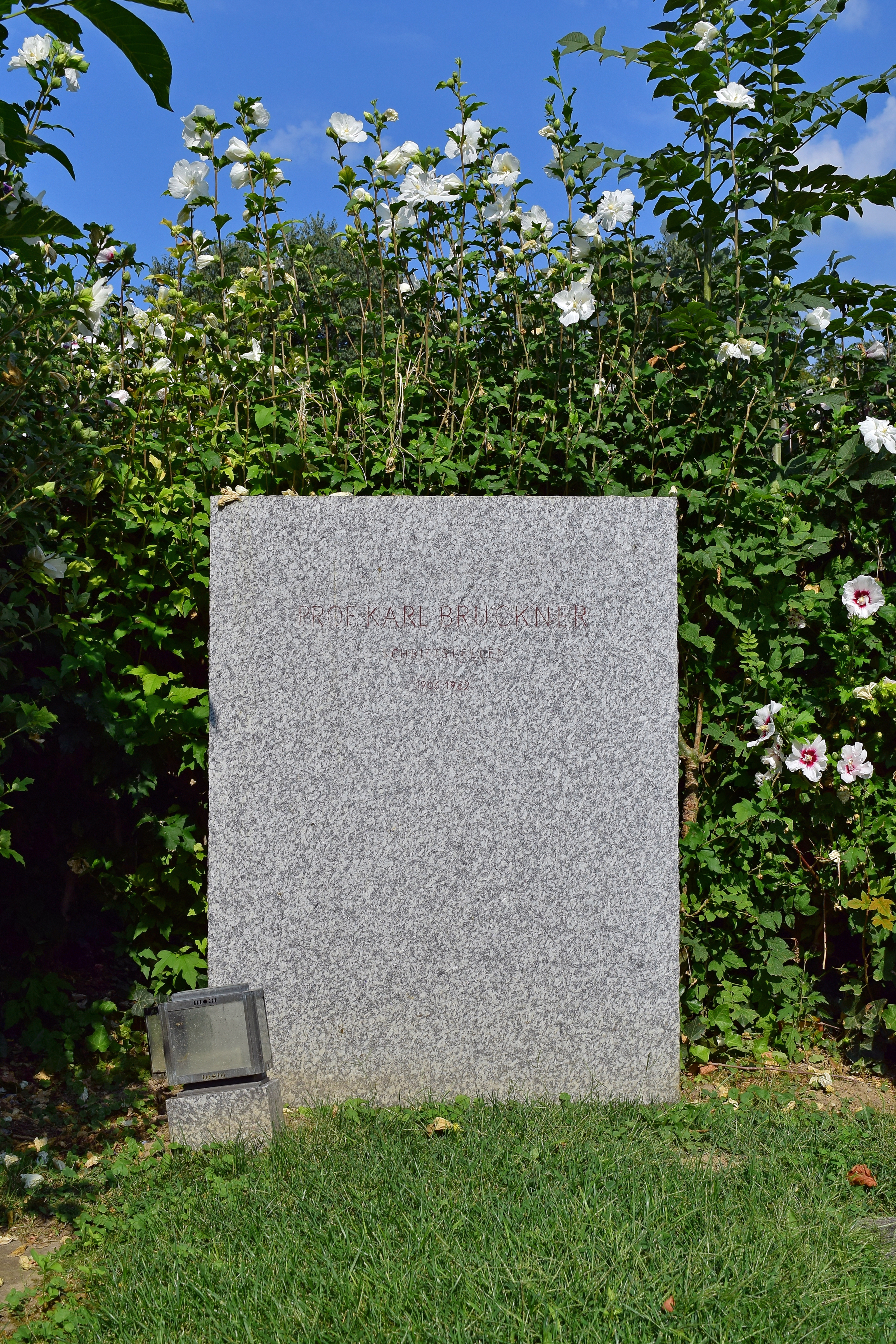 Grave of honor of the Austrian children's writer Karl Bruckner at the Wiener Zentralfriedhof